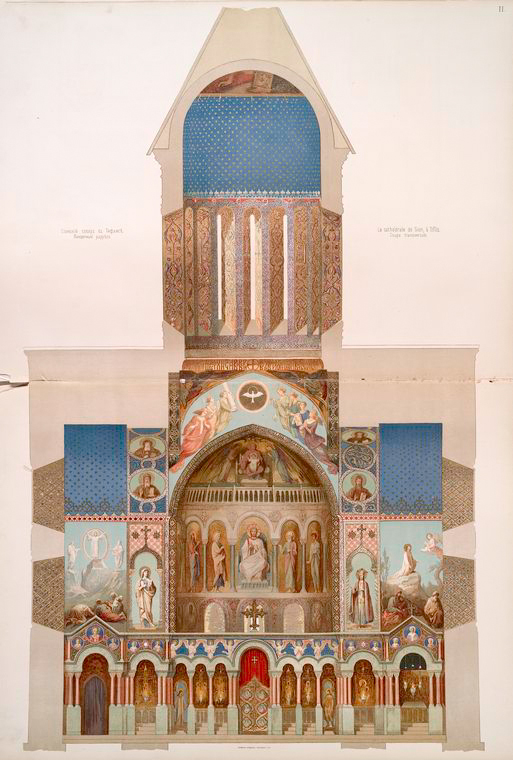 Image Title: Stennaia zhivopis' v Sionskom sobore , v Tiflise, ispolnennaia v 1853-1854 g. Poperechnyi razrez sobora Alternate Title: Wall painting, Zion Cathedral, Tiflis (Tbilisi)